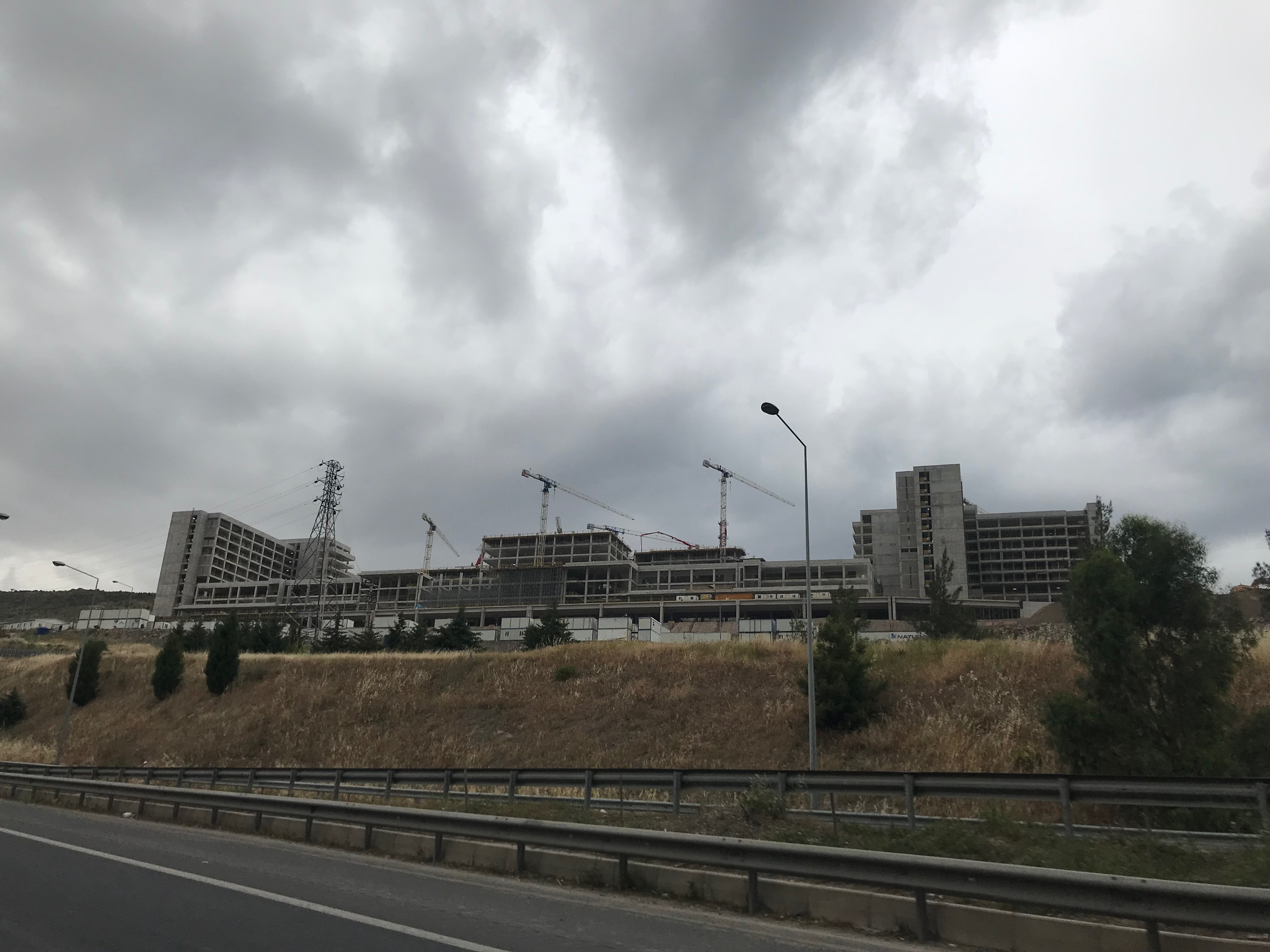 İzmir City Hospital under construction in May 2019.